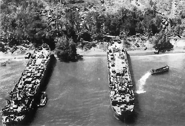 U.S. Navy tank landing ships in Tanahmerah Bay at "Red Beach 2" during the landings of the U.S. 24th Infantry Division, 22 April 1944. This was the Western Task Force during the Landings at Hollandia (Operation Reckless).